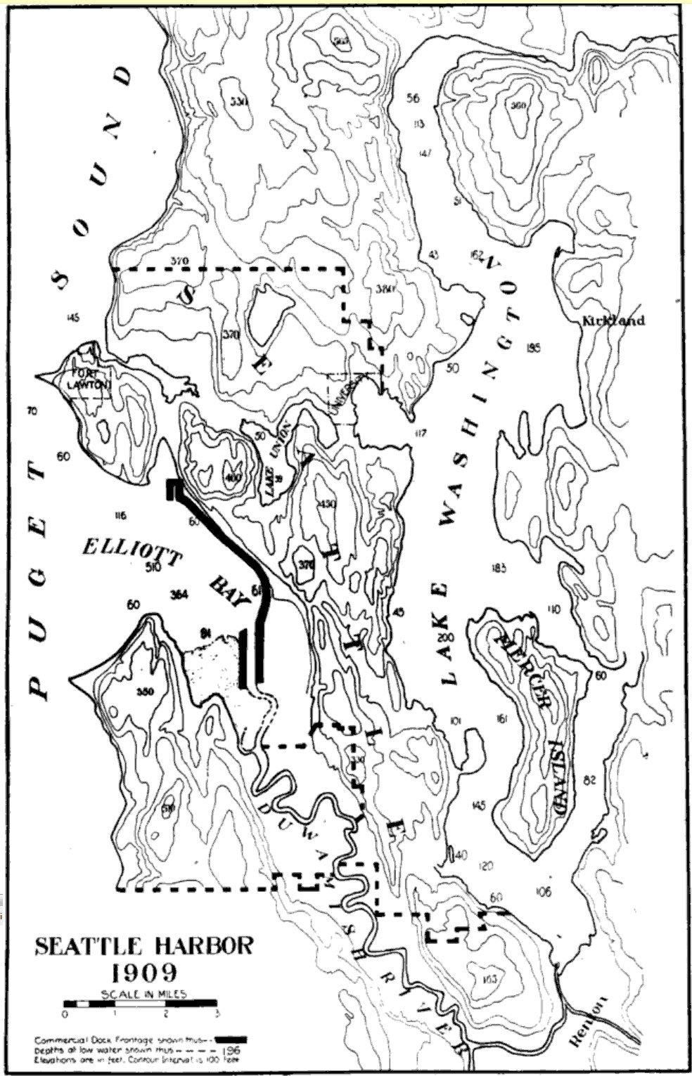 Topographical map of Seattle, Washington, 1909, showing the old route of the Duwamish River. Also predates Lake Washington Ship Canal. Original caption: "Seattle Harbor 1909." Compare File:Seattle 1909 harbor improvements proposal on topo.jpg.